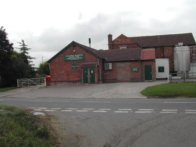 Colston Bassett Dairy. on the junction of Langar Ln and Harby Ln. This Dairy is famous for the beautiful "Blue Stilton" it produces